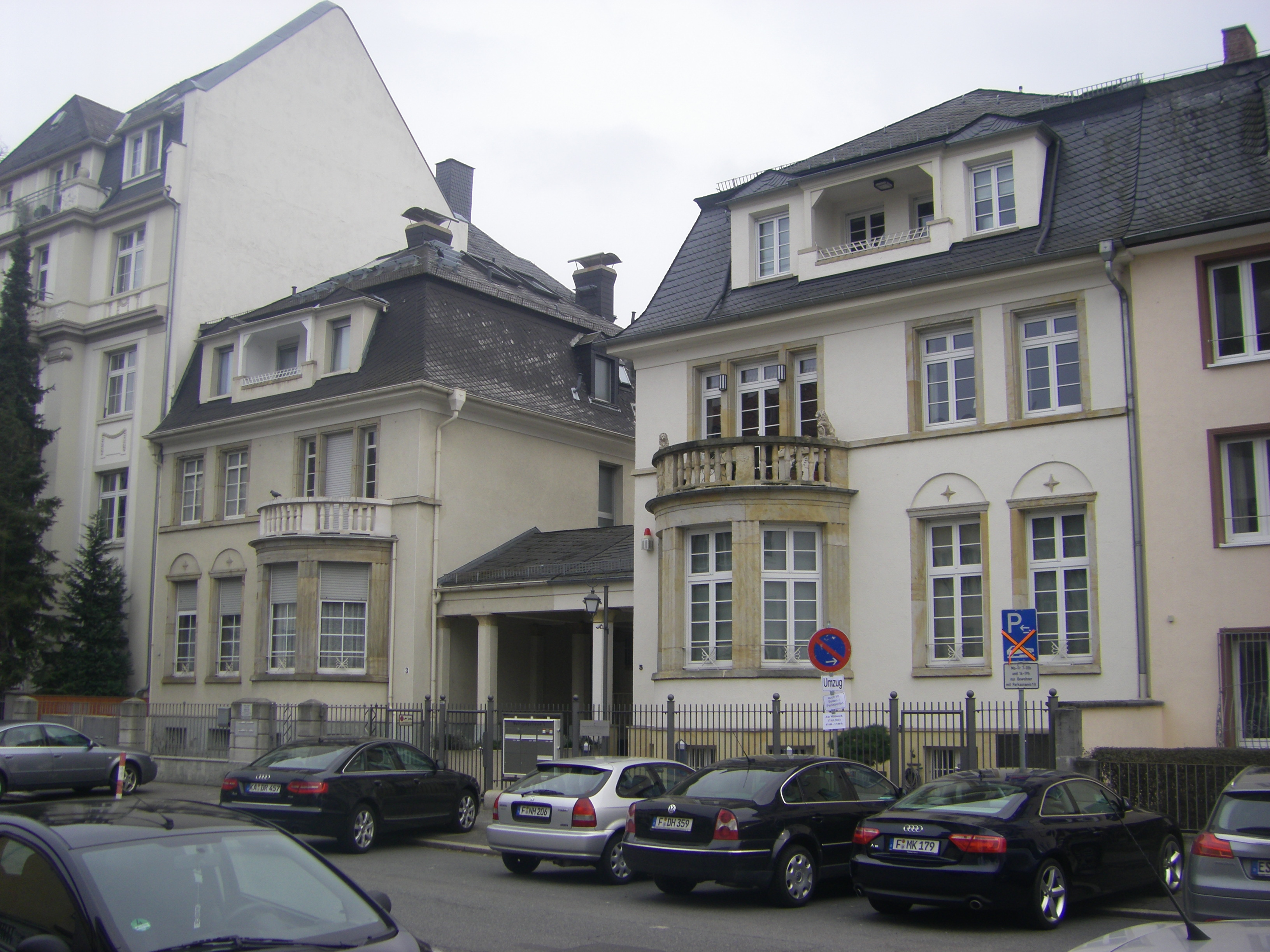 Twin villa, build 1925 by architects Josef Rindsfüßer and Martin Kühn for the merchants F. Reis and M. Moses